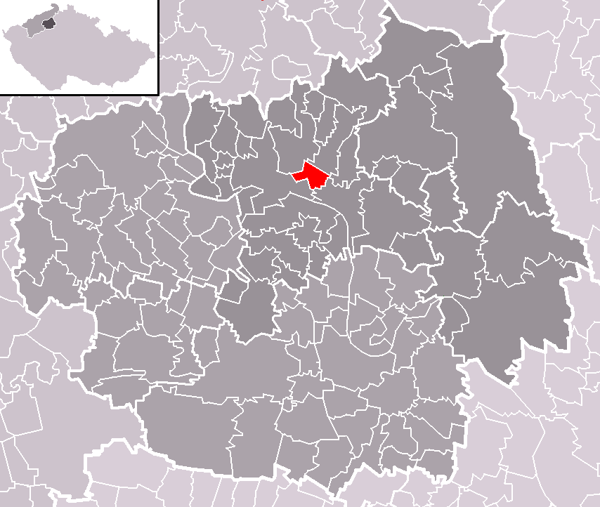 Location of Trnovany municipality within Litoměřice District and administrative area of Litoměřice as a Municipality with Extended Competence.